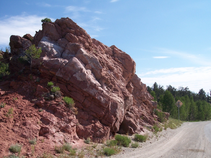 Photograph of the remains of the Kill Creek Presbyterian Church, taken in April, 2004. Photo taken by me and released to the public.